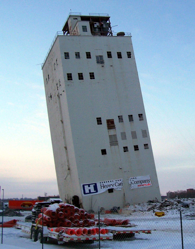 Zip Feed Tower building of Sioux Falls, South Dakota, shortly after demolition attempt.